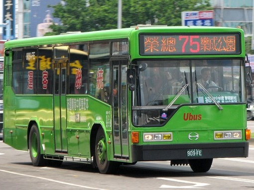 United Bus Co., Ltd. Taichung City Line 75.